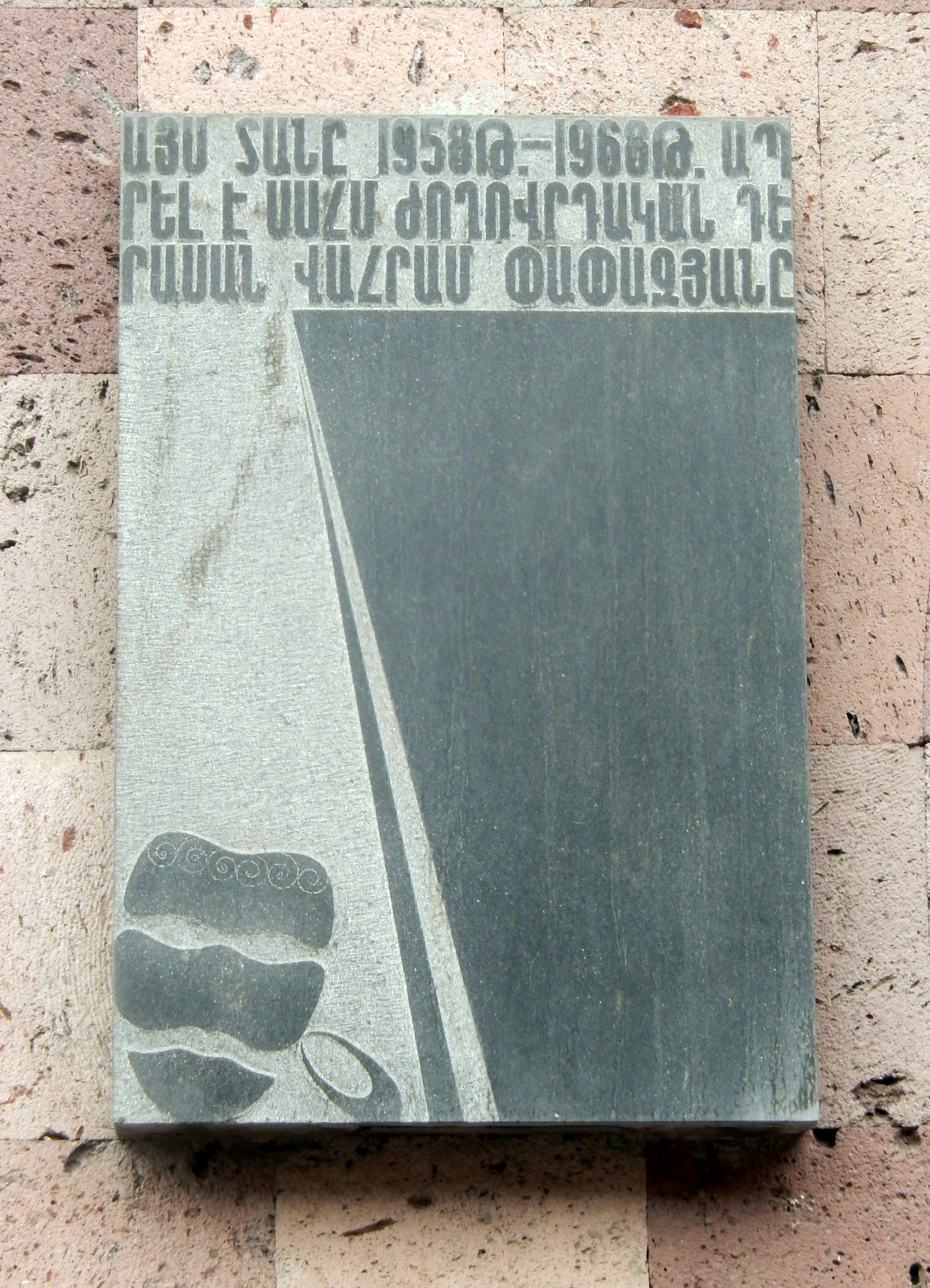 Kievyan Street, Yerevan